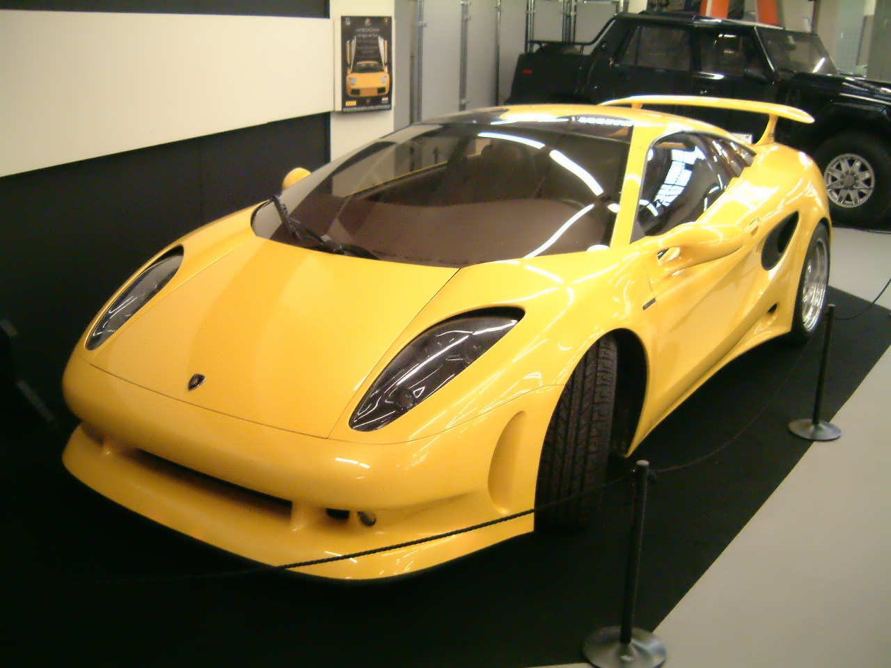 Front view of the Lamborghini Calà (also known as Italdesign Calà).